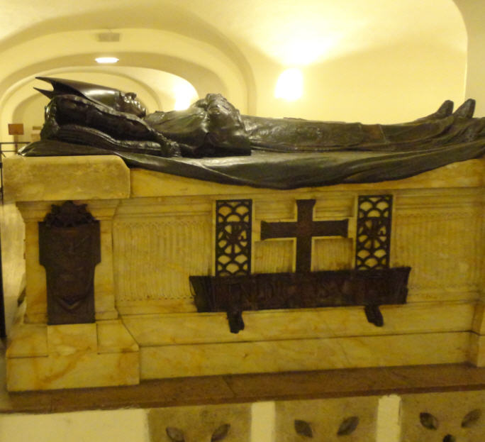 Tomb of Pope Benedict XV in the grottoes of St. Peter's in Vatican City State